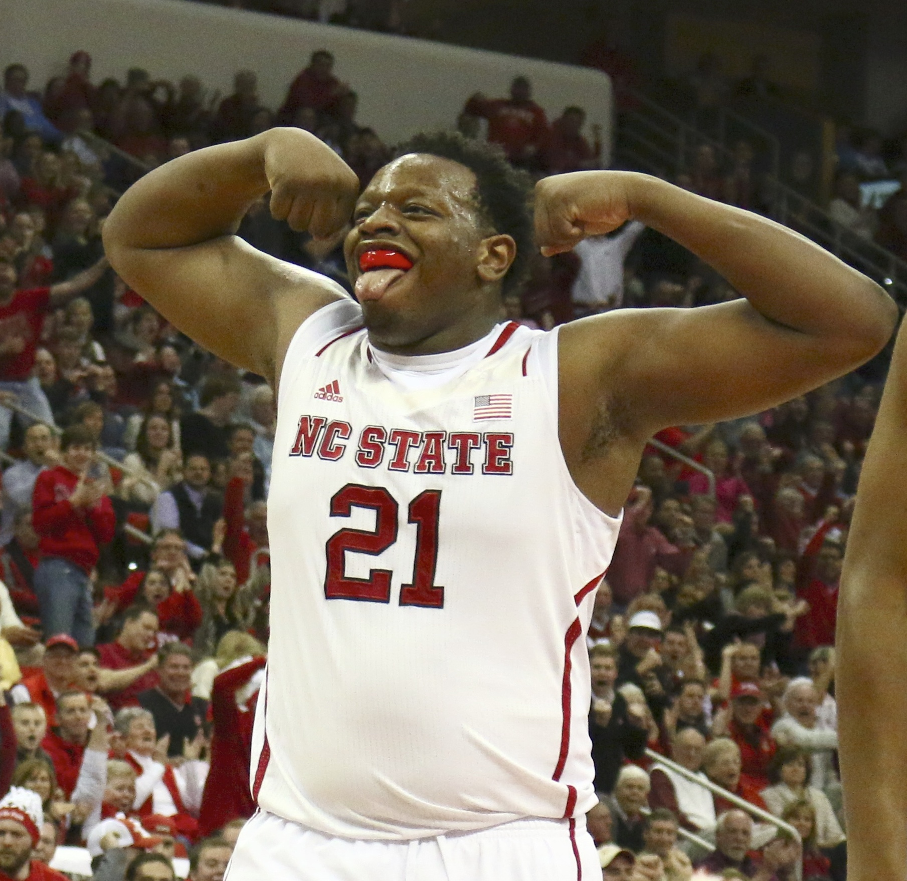 BeeJay Anya (21) flexes after scoring in the post. NC State lost to UNC in overtime, 85-84, on February 26, 2014 at the PNC arena in Raleigh, North Carolina. Photo by: Jerome Carpenter